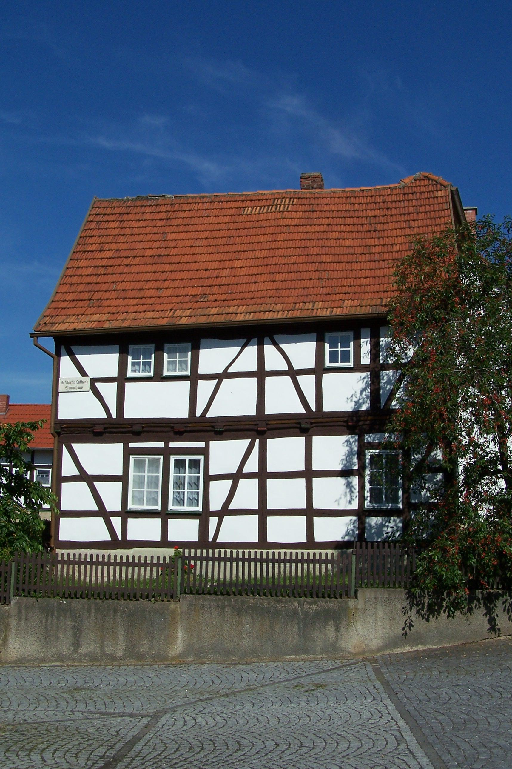 The Luther House in Möhra village.